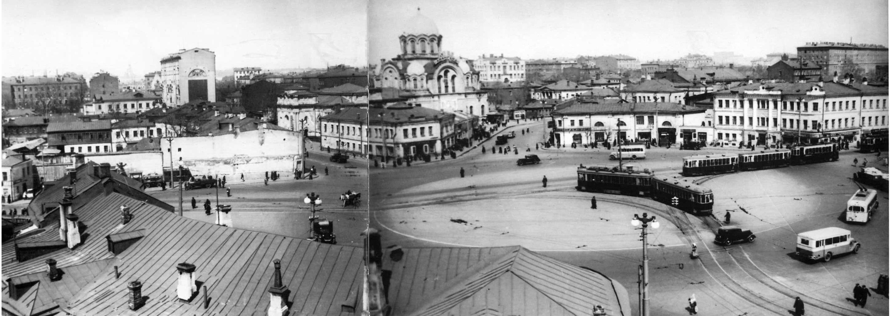 Kaluzhskaya Square, Moscow